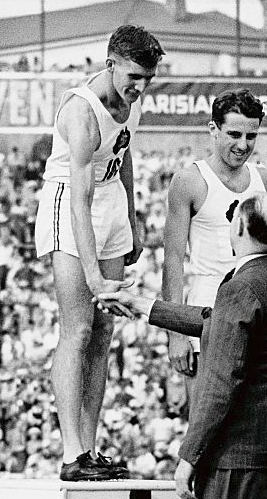 Commonwealth Games 1950 in Auckland. Australian trio Brian Oliver, Leslie McKeand and Ian Polmear ensured it was a triple treat in the triple jump. The Age Picture by STAFF